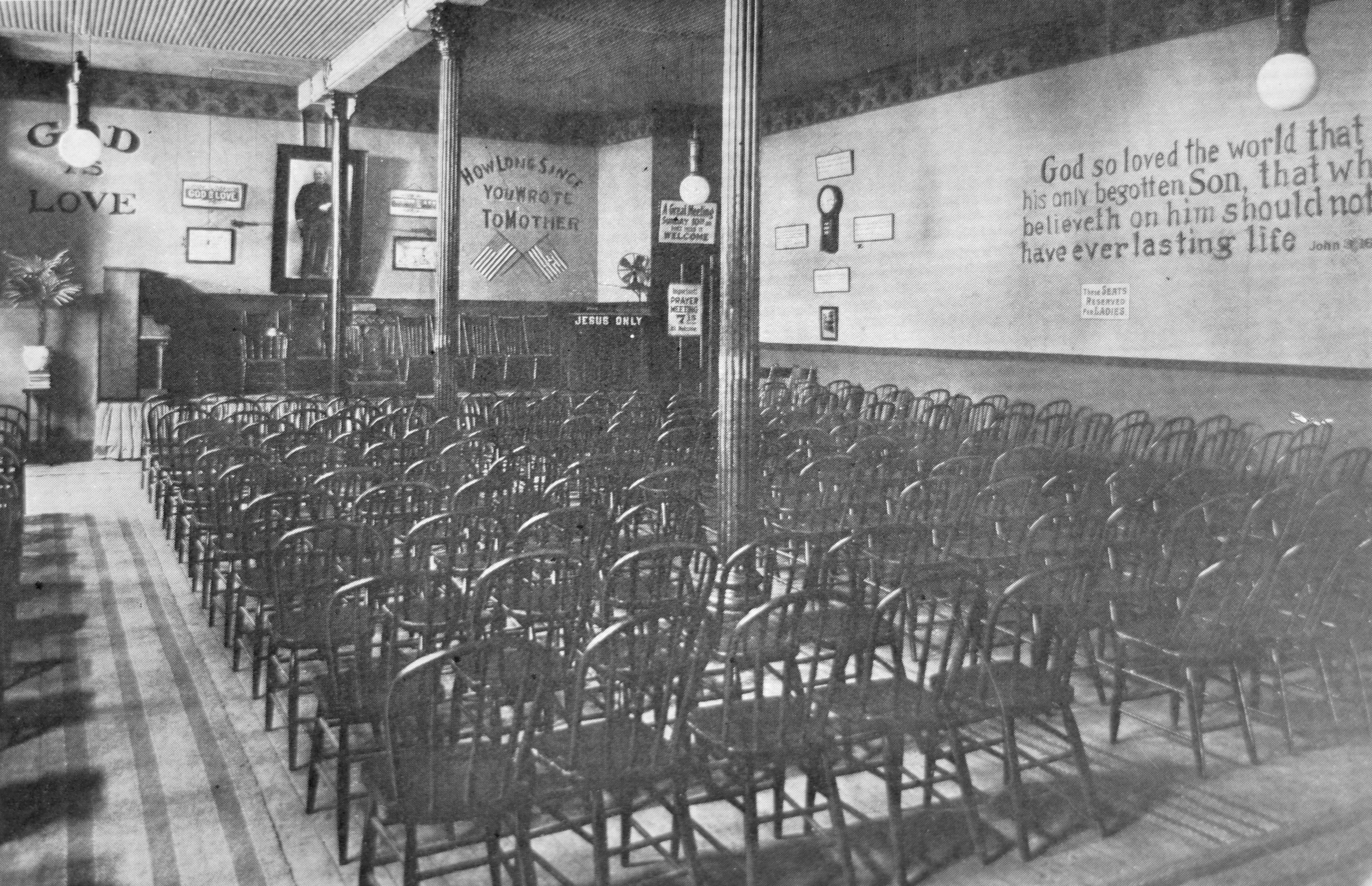 Interior photograph of the Pacific Garden Mission